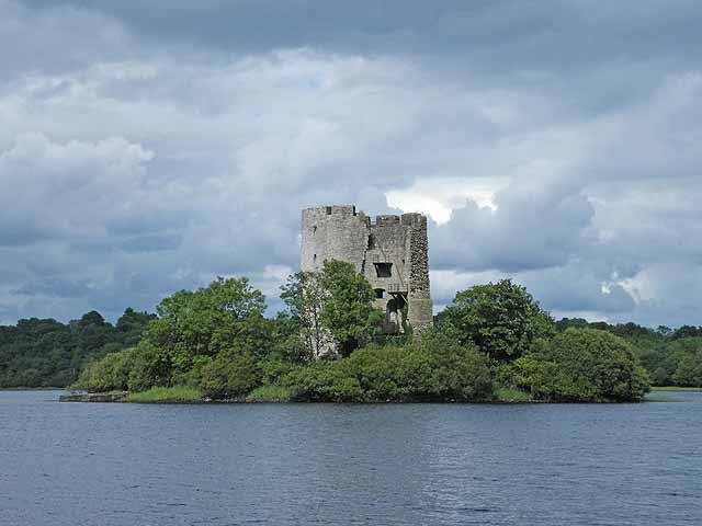 Clogh Oughter Castle is situated on an island on Lough Oughter, County Cavan, Ireland